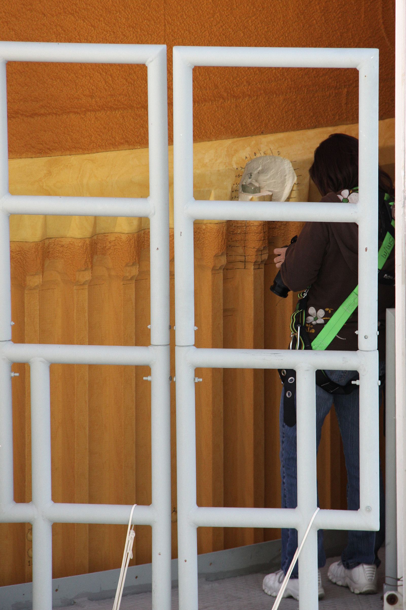 CAPE CANAVERAL, Fla. – On Launch Pad 39A at NASA's Kennedy Space Center in Florida, a worker examines the foam insulation on space shuttle Discovery's external fuel tank. Two cracks on a section of the tank’s metal exterior were found on one of the stringers, which are the composite aluminum ribs located vertically on the tank’s intertank area. Engineers will review images of the cracks to determine the best possible repair method. Discovery's next launch attempt is no earlier than Nov. 30 at 4:02 a.m. EST. For more information on STS-133, visit